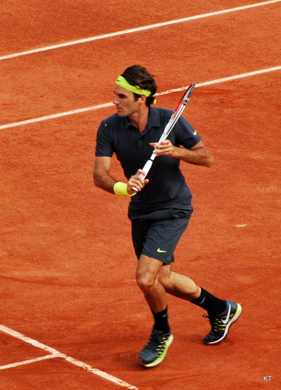 Roger Federer during his 3rd round match with Nicolas Mahut at Roland Garros. Federer won 6-3, 4-6, 6-2, 7-5. Day 6 of Roland Garros 2012.